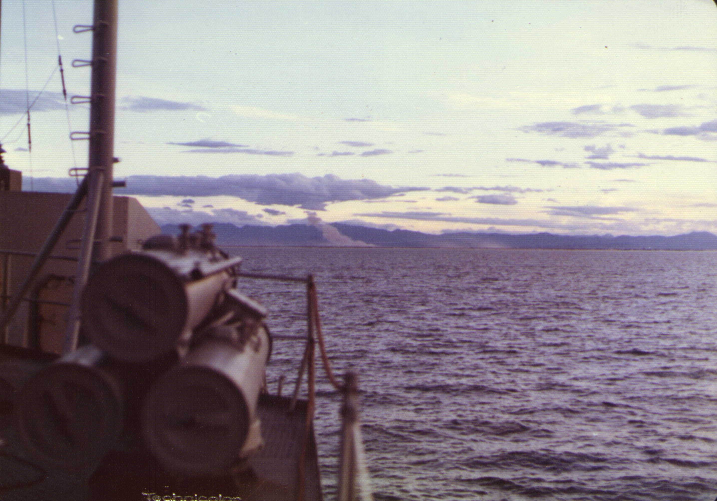 The U.S. Navy destroyer USS Hanson (DD-832) firing on incursion troops in the Quang Tri river basin, in 1972. Note the Mark 32 torpedo tubes.